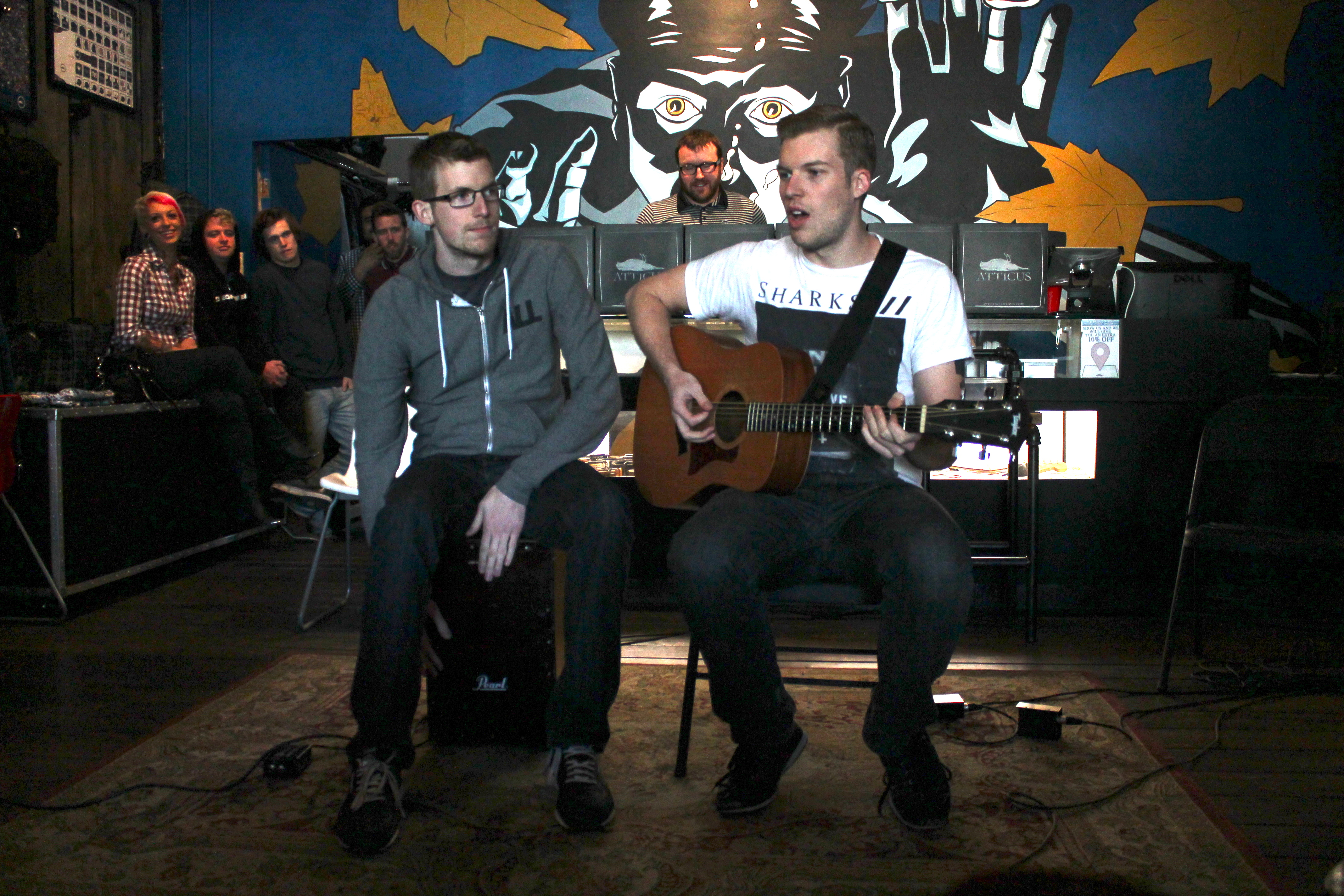 Nick and Jonathan Diener from The Swellers playing an acoustic show at the Atticus store in Hollywood, CA.